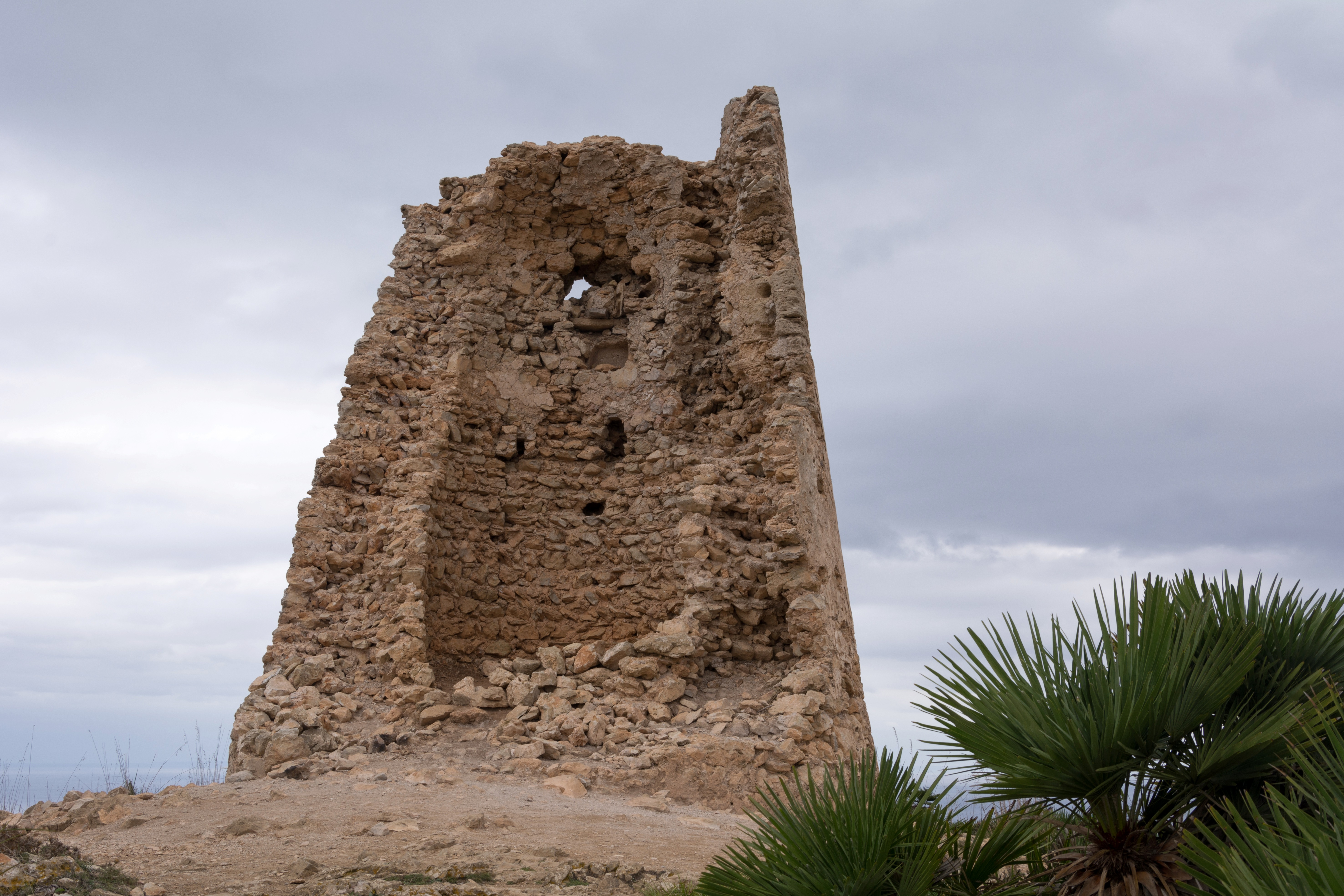 Talaia de Son Jaumell (Capdepera), the remains of a watchtower on the top of Es Telégraf (273 m)